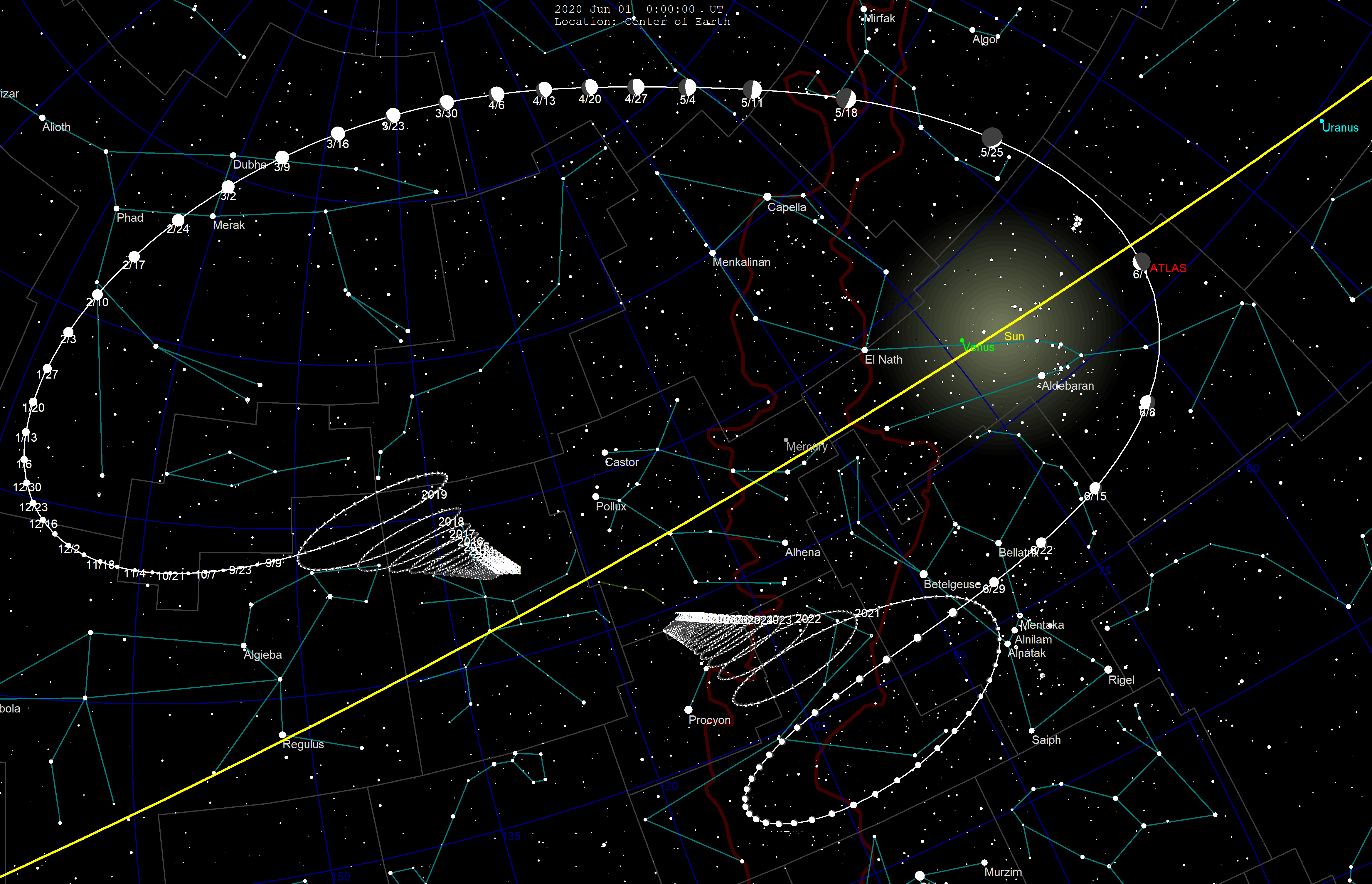 C/2019_Y4_(ATLAS) orbit, JPL Horizons, Rec #:90004446 (+COV) Soln.date: 2020-Mar-19_18:45:13